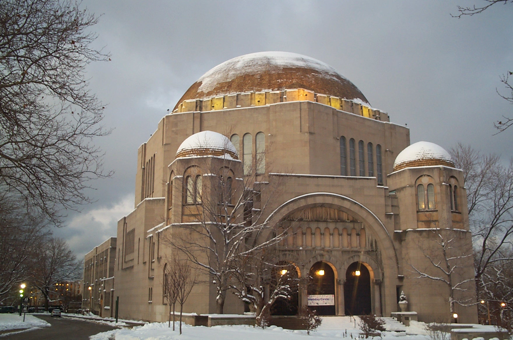 A historic synagogue in Cleveland's University Circle